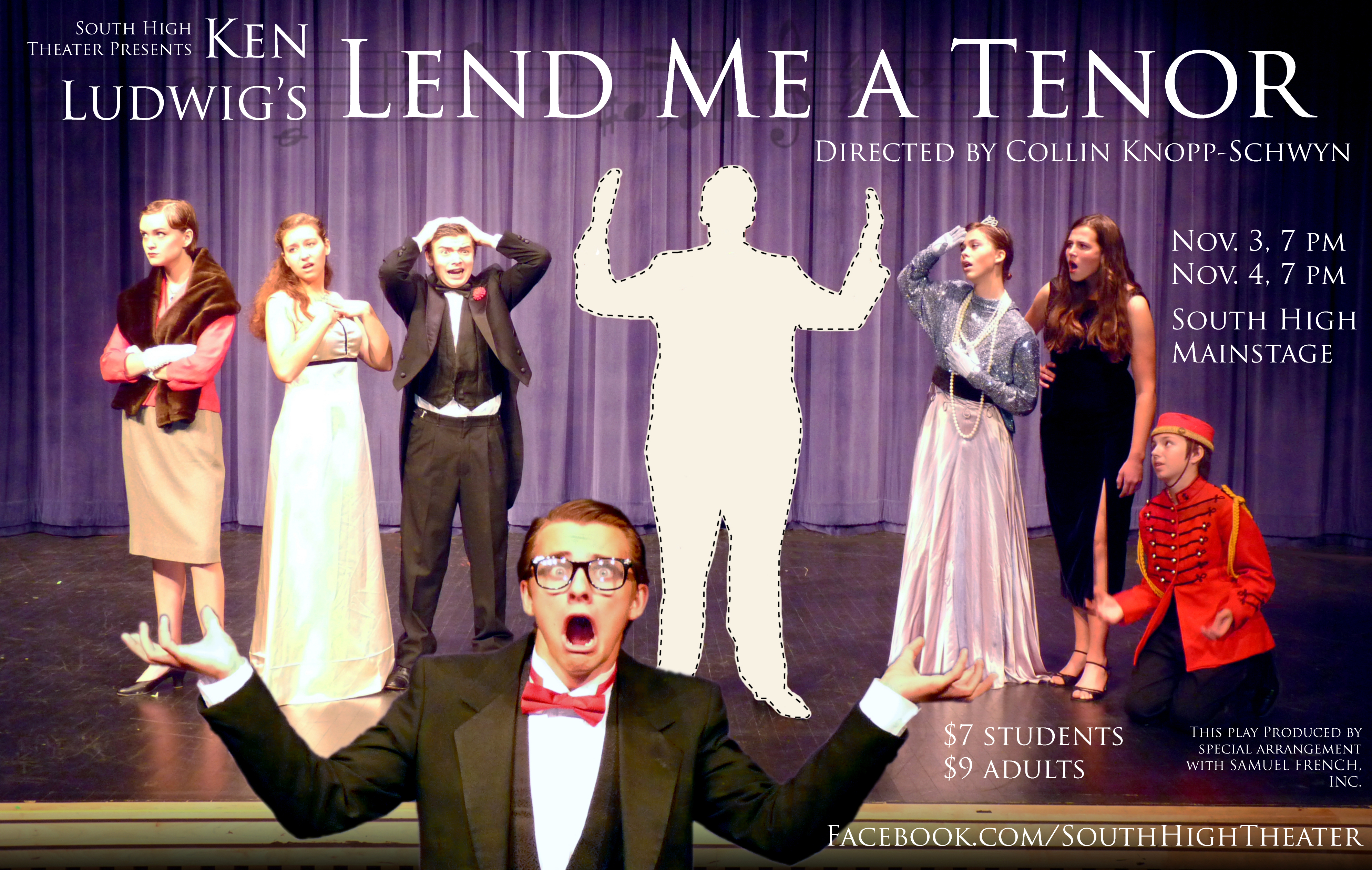 A student-made poster for the 2011 production of Ken Ludwig's Lend Me a Tenor at Minneapolis South High School.